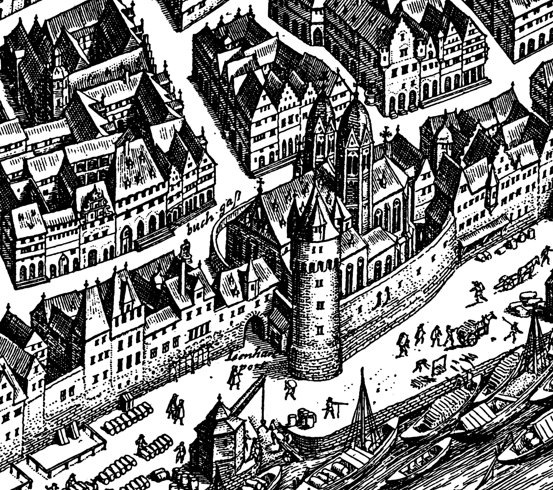 Frankfurt on the Main: detail of Merian's plan of 1628 with the Leonhardskirche (Leonard's church) and the Leonhardsturm (Leonard's tower)